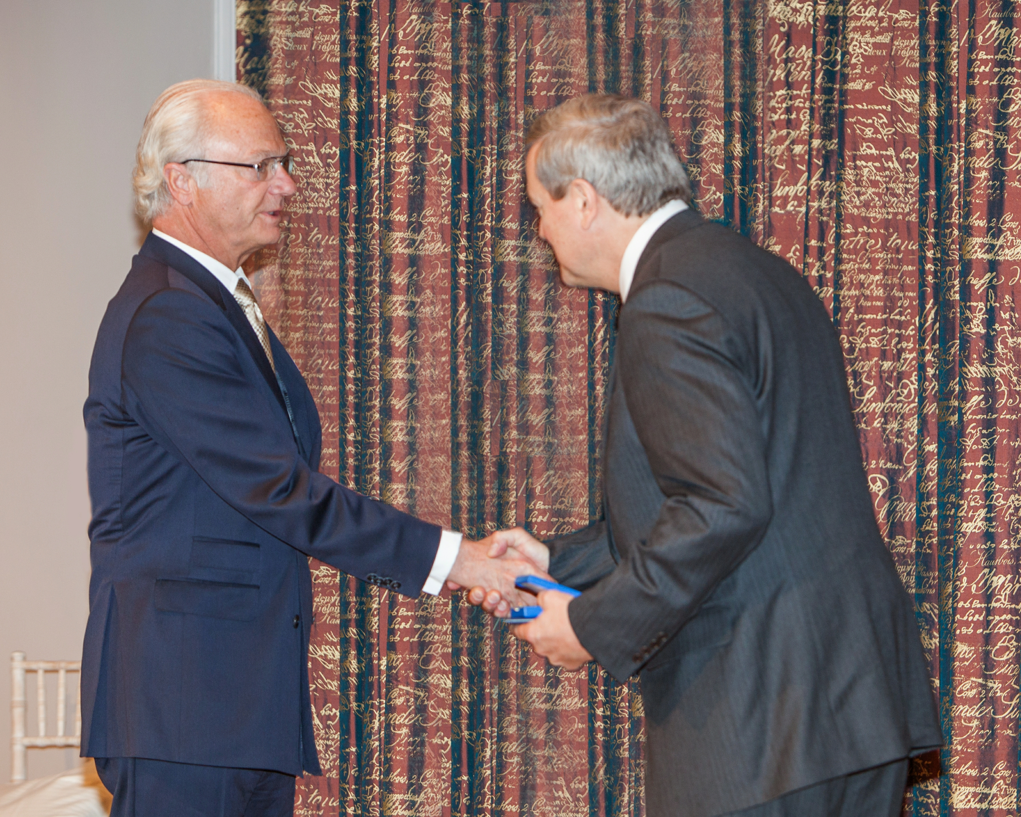 Carl XVI Gustaf of Sweden awards The Crafoord Prize in Polyartheritis 2013 to Peter K. Gregersen